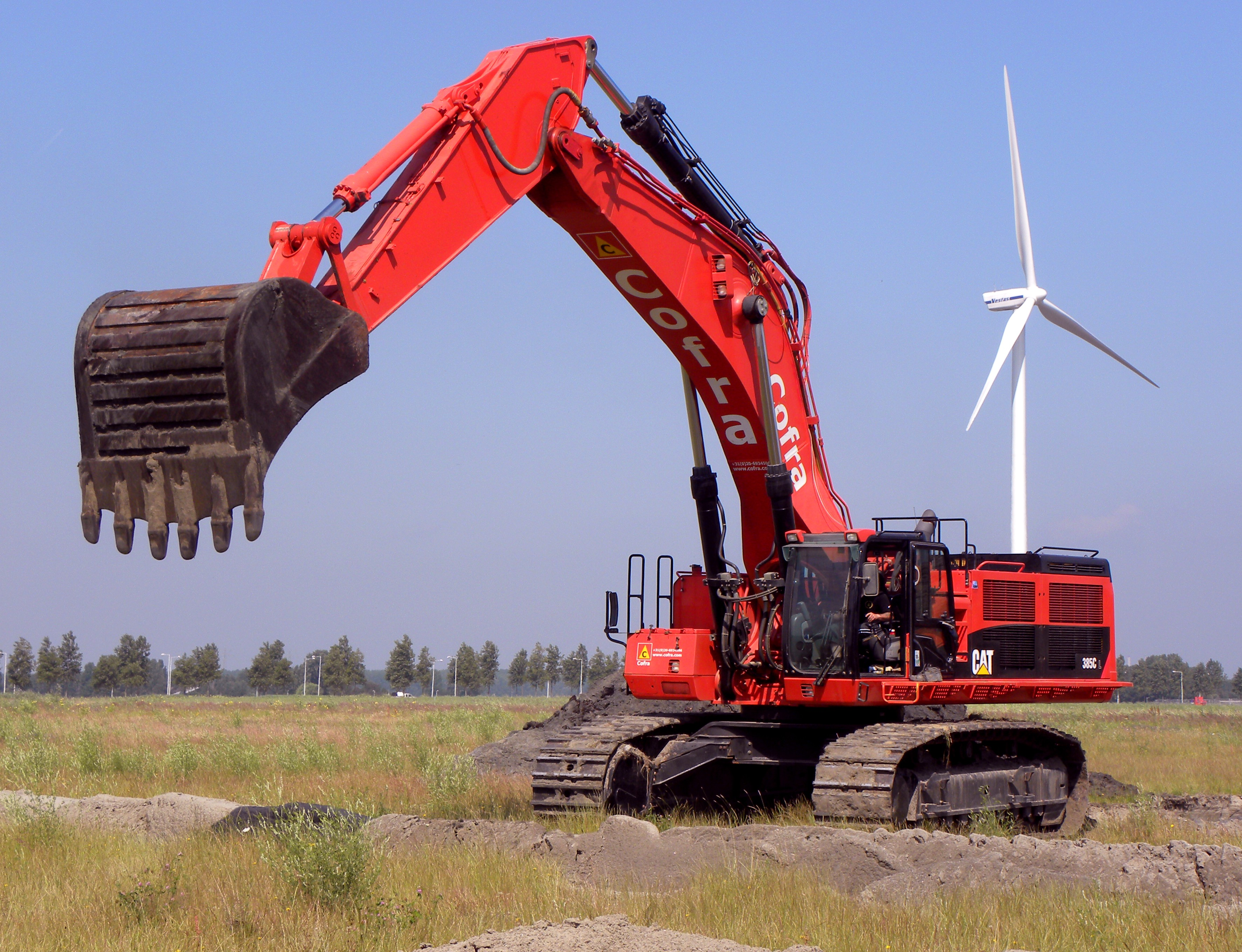 Caterpillar Cat 385c l from Cofra Amsterdam.